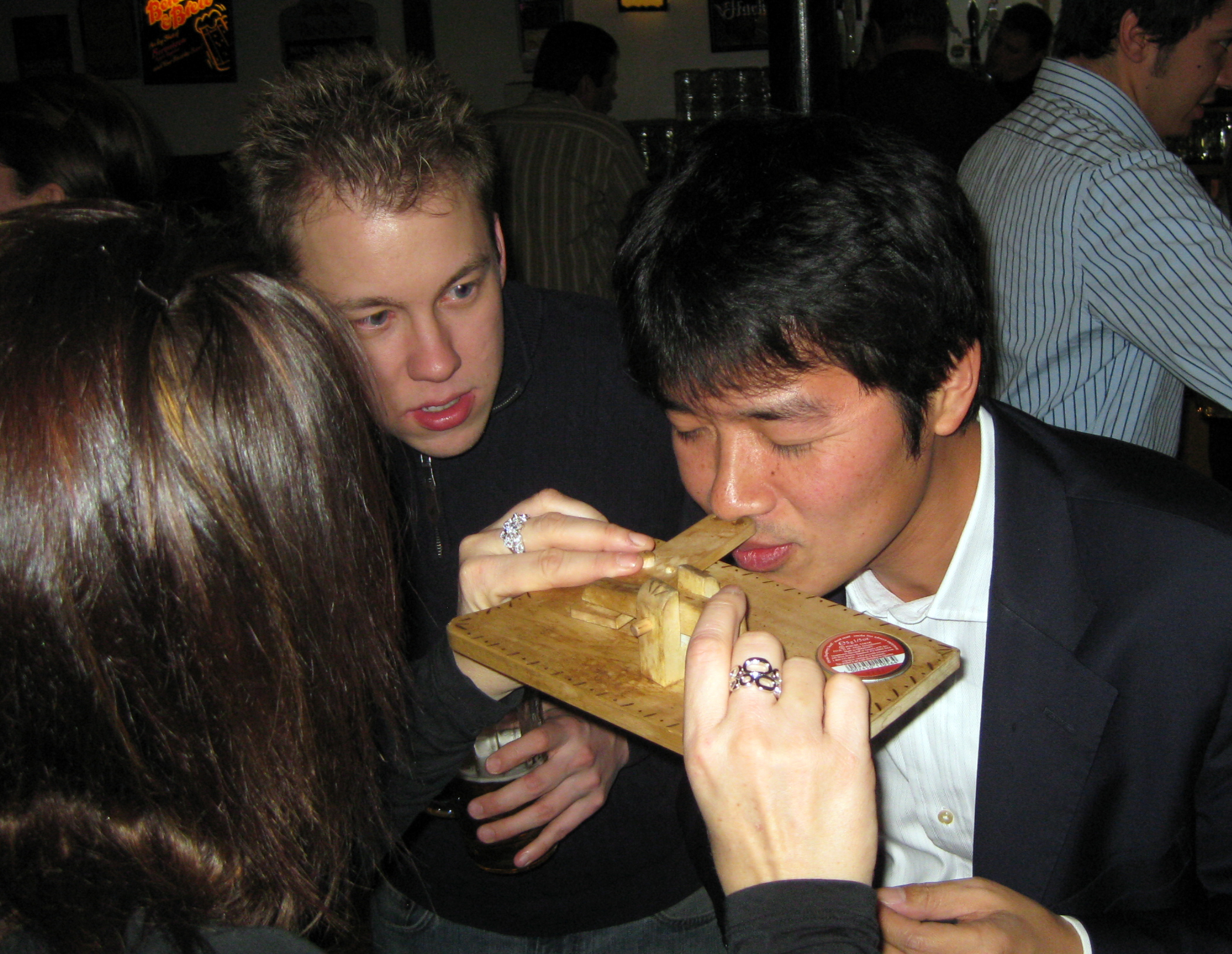 At Gasthof Zur Gemutlichkeit in Minneapolis, Minnesota, a special spring-loaded device is used to shoot snuff directly into one's nostrils.